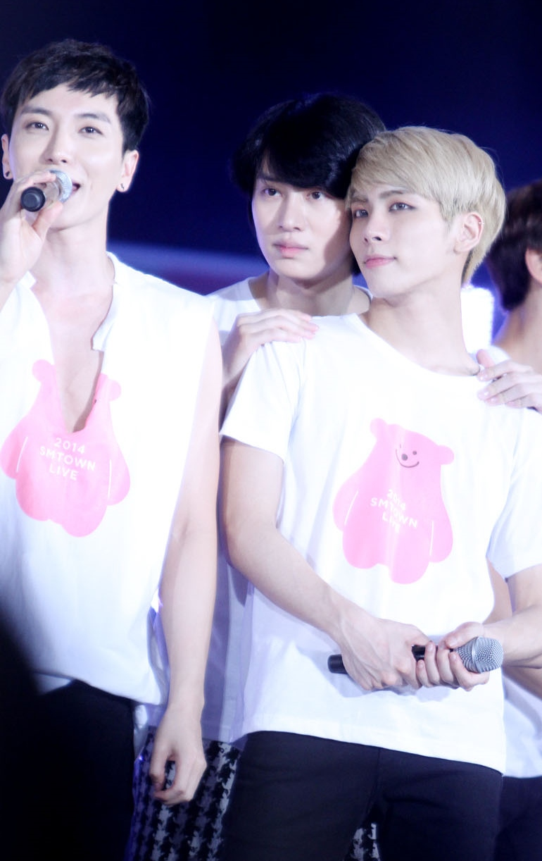 SMTown Live World Tour IV in Seoul in August 15, 2014.